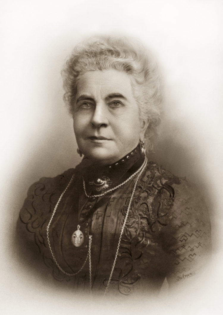 Anne Fraser Bon (1838-1936) was a Scottish-born Australian pastoralist, philanthropist and advocate for Aboriginal people